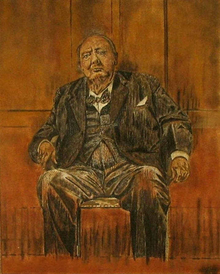 Sand Painting of Sir Winston Churchill by Environmental Sand Artist Brian Pike, size 70cms by 56cms